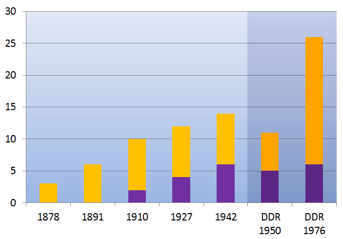 Maternal leave as by law in Germany, in weeks. The years indicate the year of the law. Women were/are not allowed to be employed during that time. Yellow: after birth, purple: before birth.